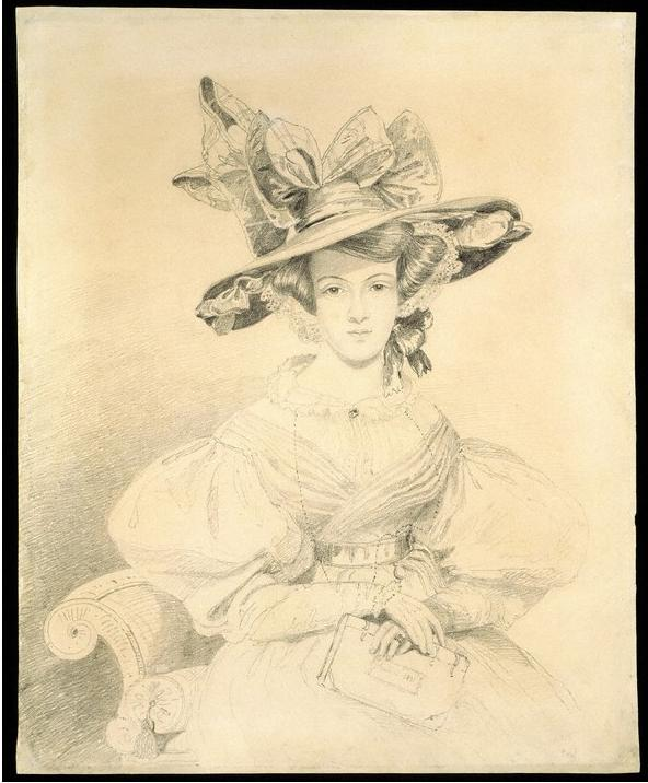 Portrait sketch, 1831, Lady Elizabeth Eastlake V&A Museum no. E.1009-1945